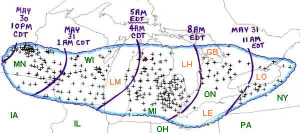 Severe weather report map of the May 30-31, 1998 derecho and tornado outbreak.